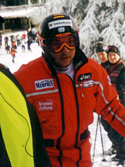 Austrian alpine skier Fritz Strobl before downhill training in Kitzbühel (Austria) on January 20th, 2000.